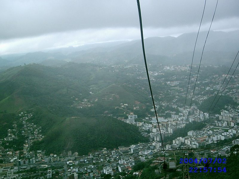 Nova Friburgo Aerial Lift